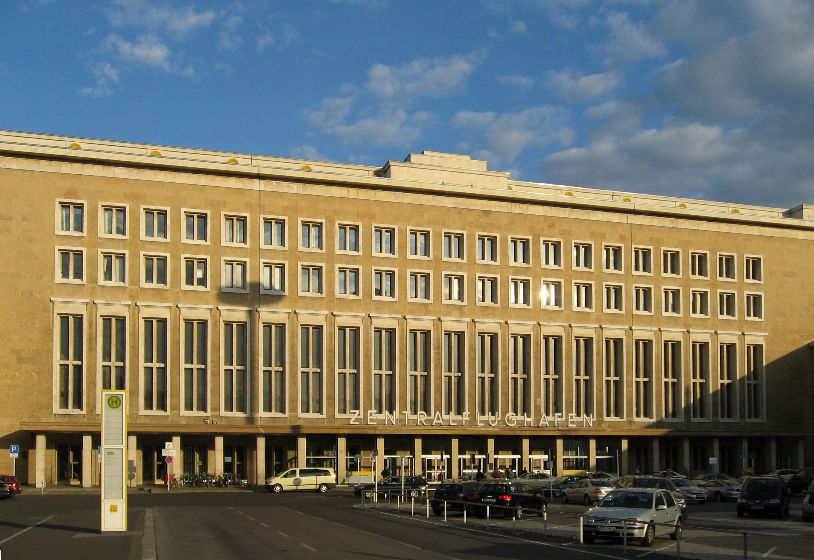 the entrance to Tempelhof International Airport